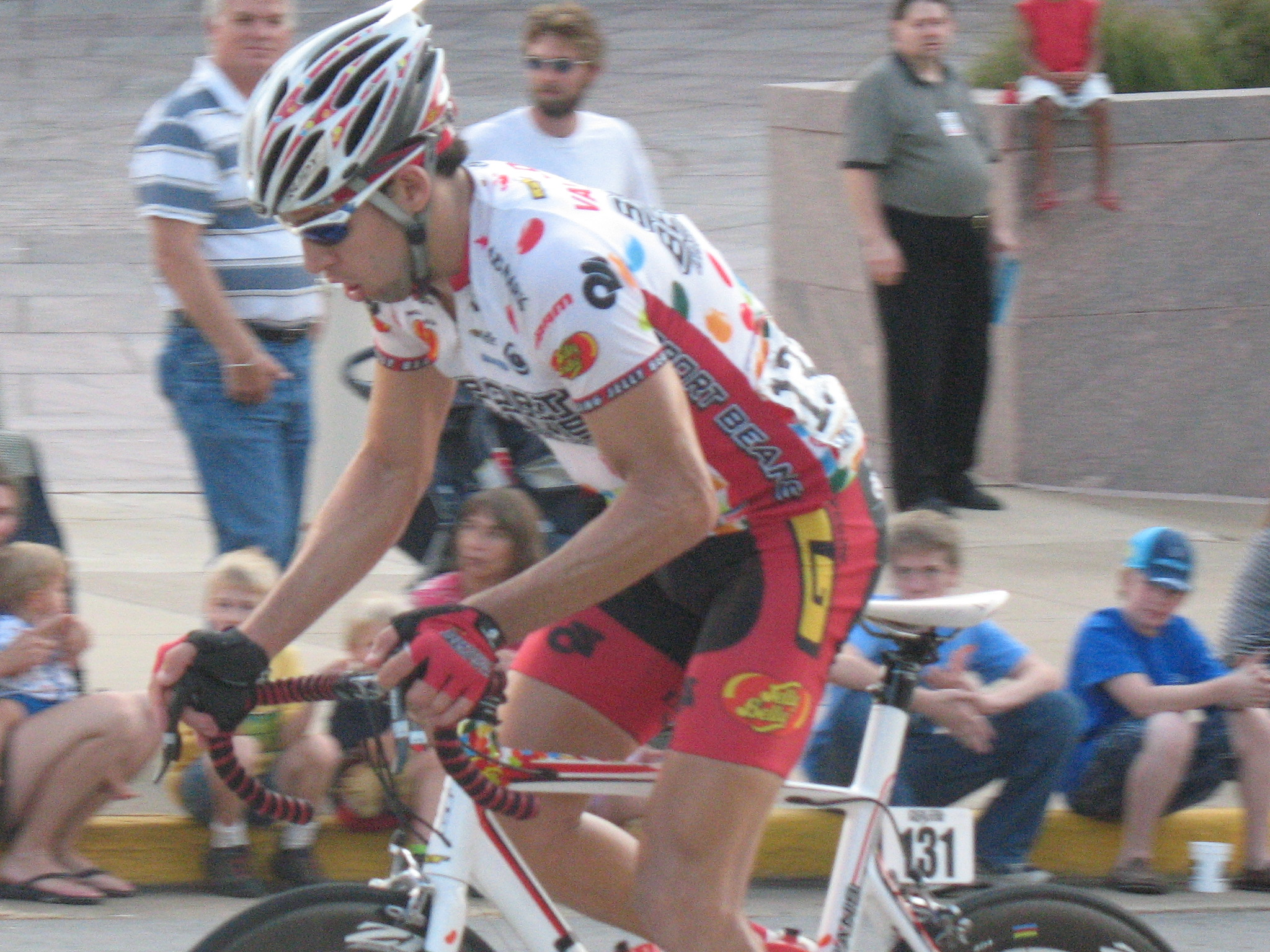 Bernard Van Ulden, Tour of Missouri 2009, Stage 4, Jefferson City